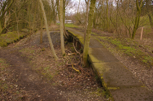 Threlkeld railway station Original description: Threlkeld Station One of the old platforms - plenty of tree growth! [Note: in actuality the Threlkeld station had only one or an 'island' platform]